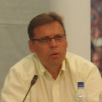 Lauri Lyly at the SuomiAreena 2009 event in Pori, Finland.